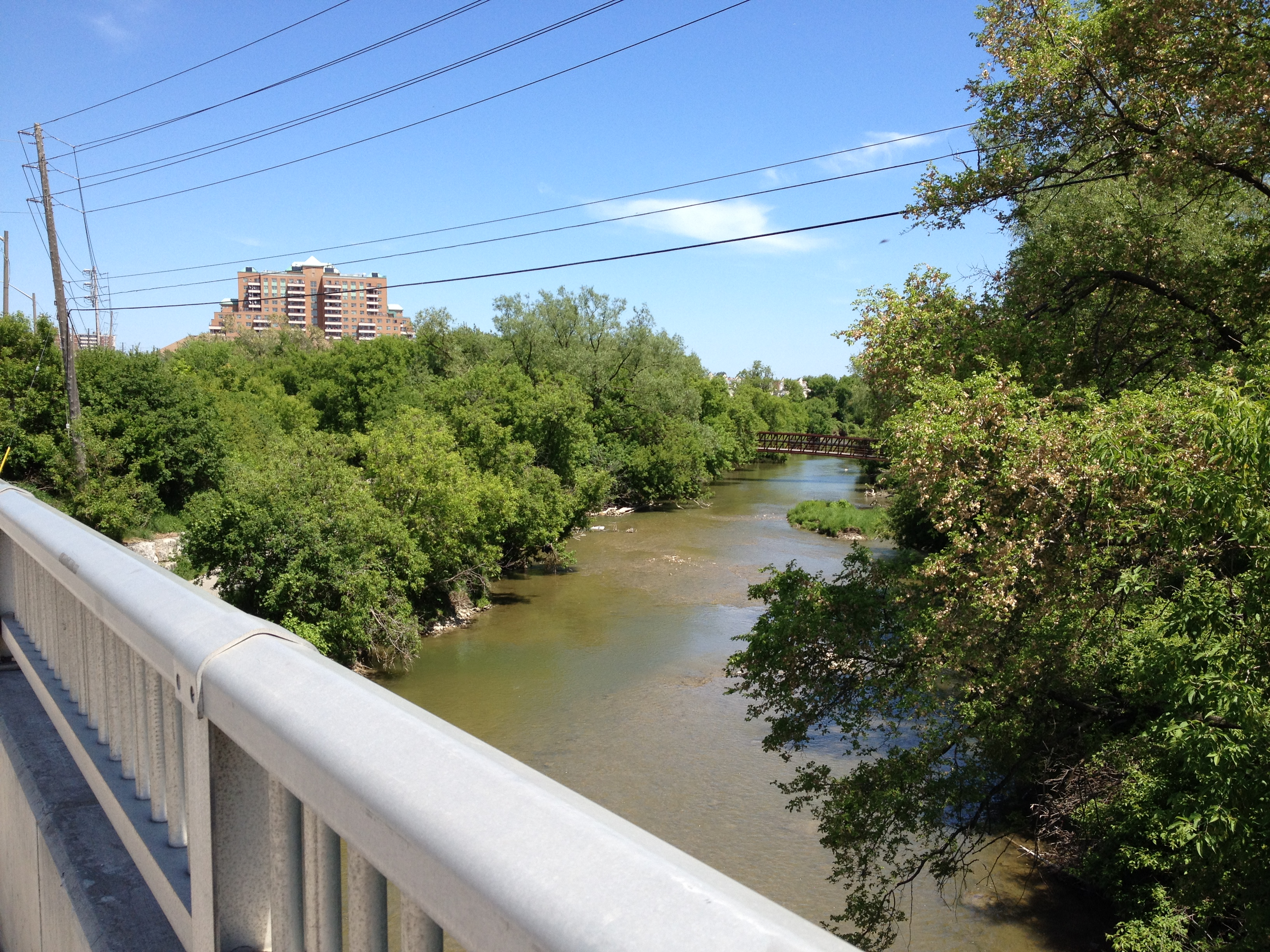 Humber River from the corner of Islington looking east along Finch Ave. W. in the Humbermeded neighbourhood of Toronto (North York) with Ahmadiyya Abode Of Peace tower in background